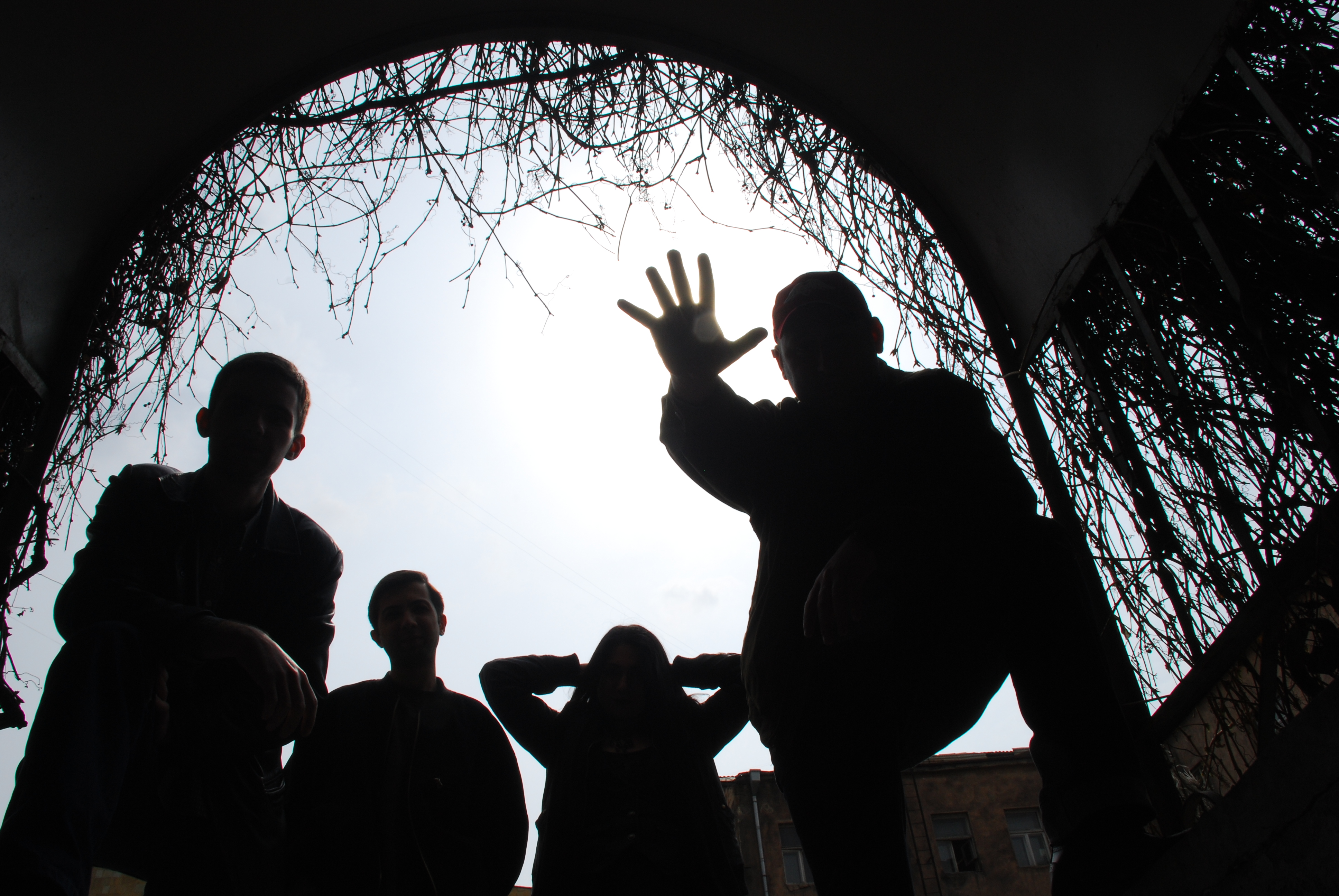 Eva Rock Band